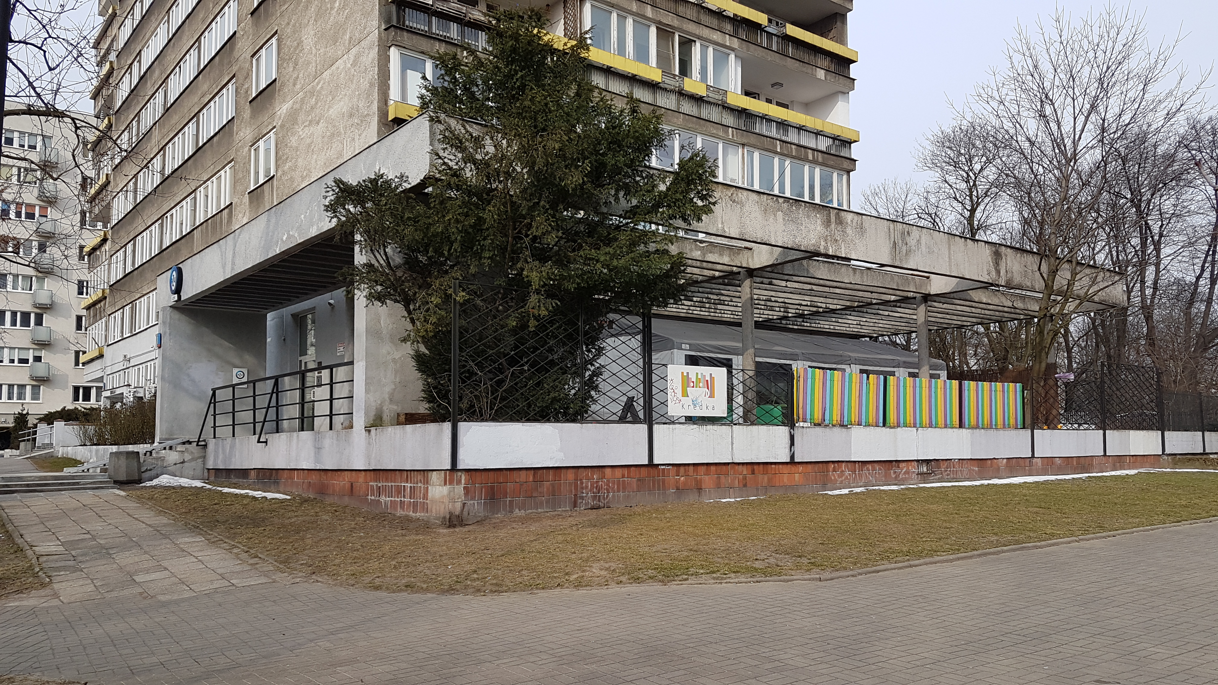 8 Smolna Street in Warsaw